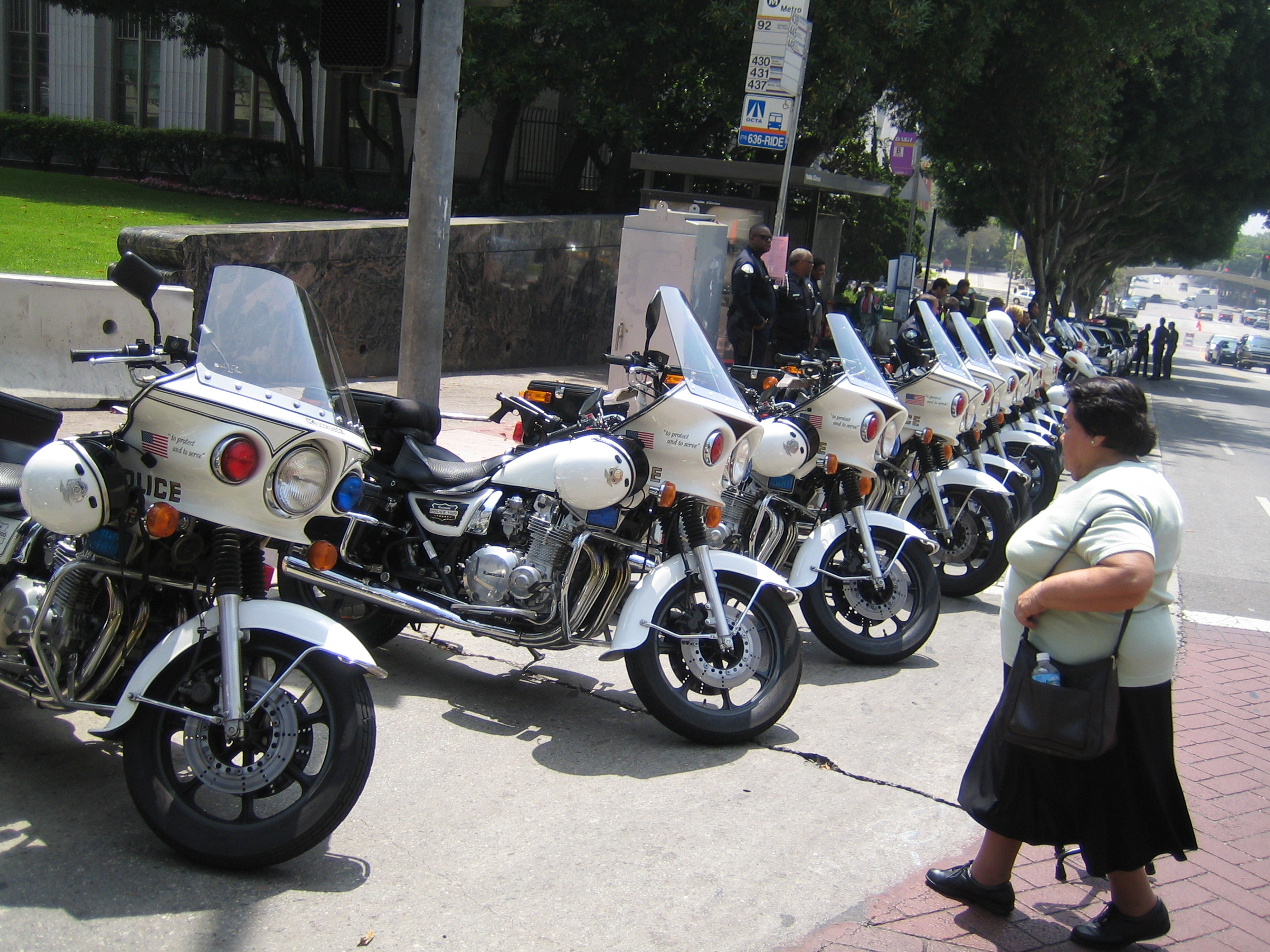 Woman vs. Cops / I thought this was funny. Taken in front of the Federal Courthouse in Downtown LA, the day of the mayoral inauguration.